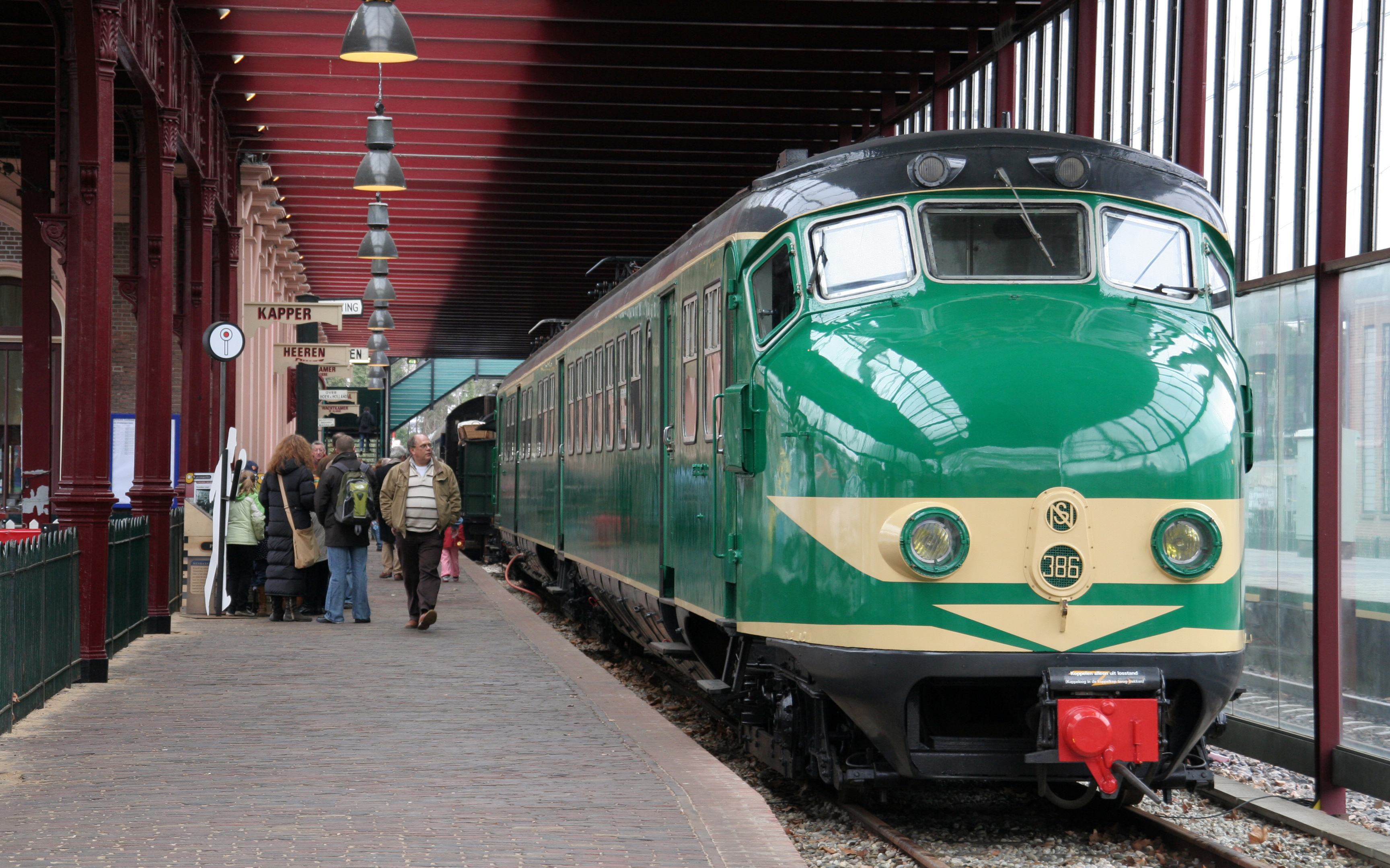 386 Hondekop at Spoorwegmuseum, Utrecht